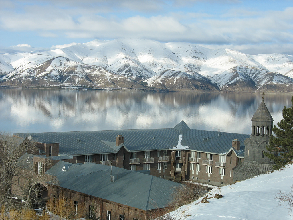 Vaskenian Theological Academy and Areguni mountain range, Armenia.